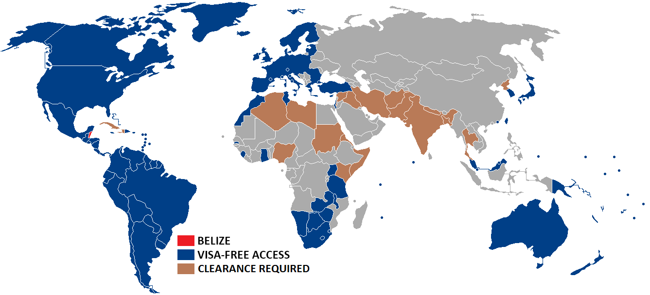 Belize Countries with visa-free access to Belize Visa required for entry to Belize Visa and clearance required for entry to Belize